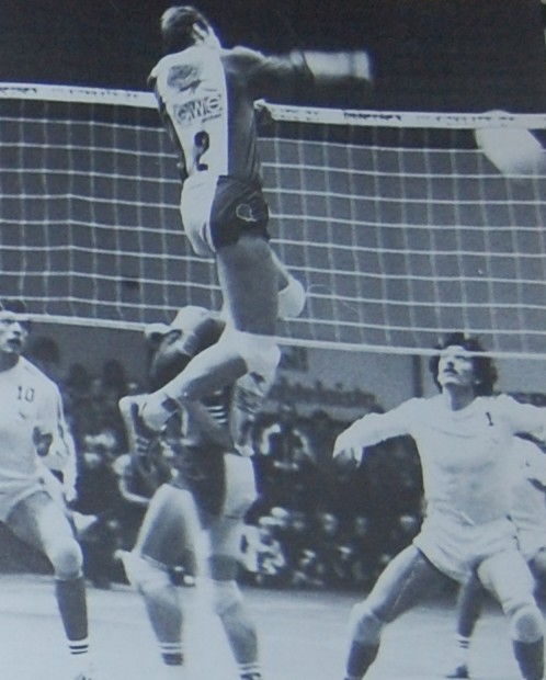 Jukka Savio hit hard in European Cup game in December 1979.